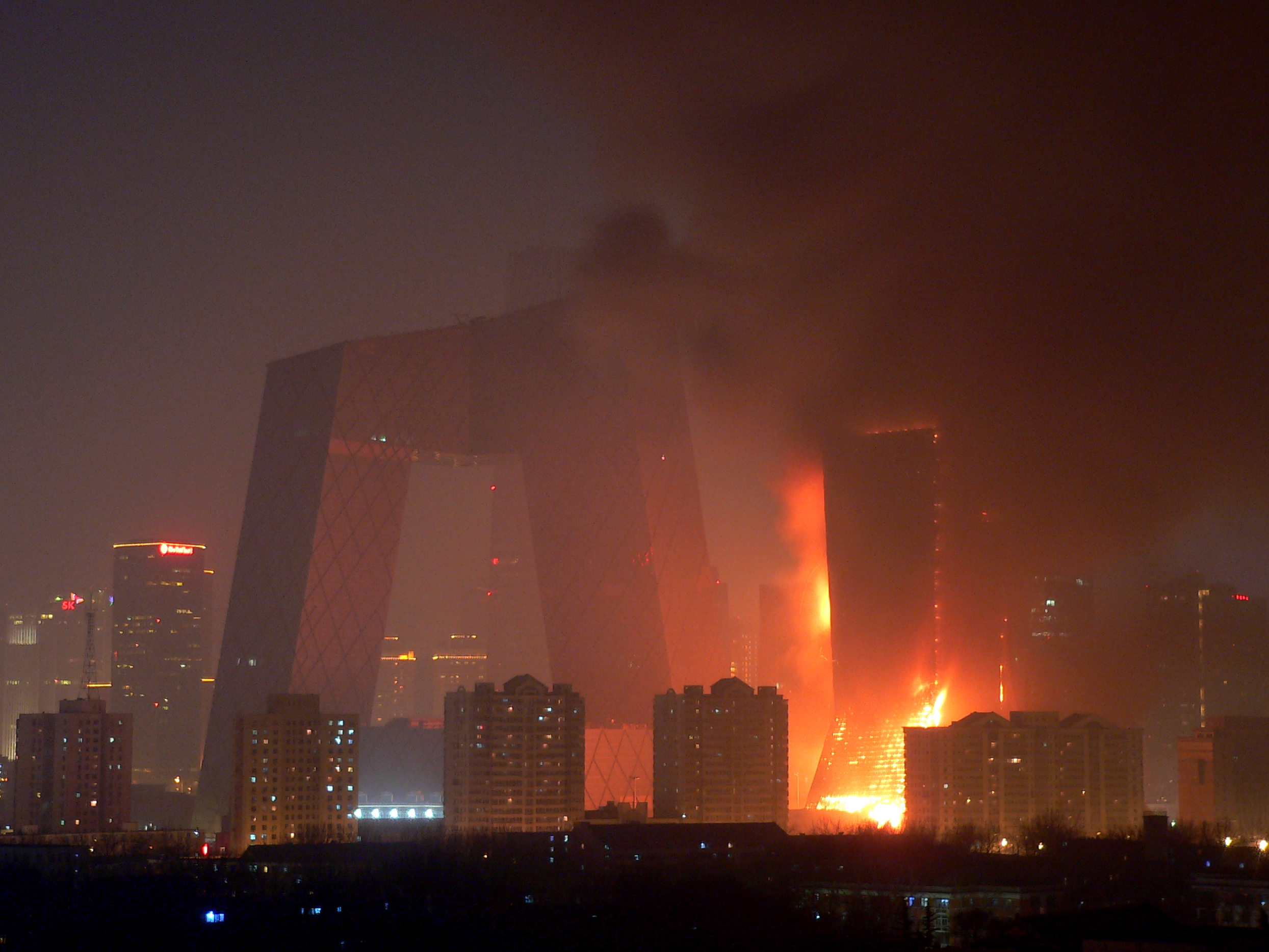 TVCC Hotel Site Fire